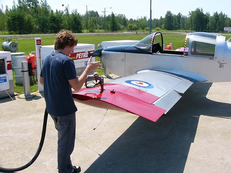 I took this photo of an American Aviation AA-1 Yankee being refuelled in Bromont Quebec 2006